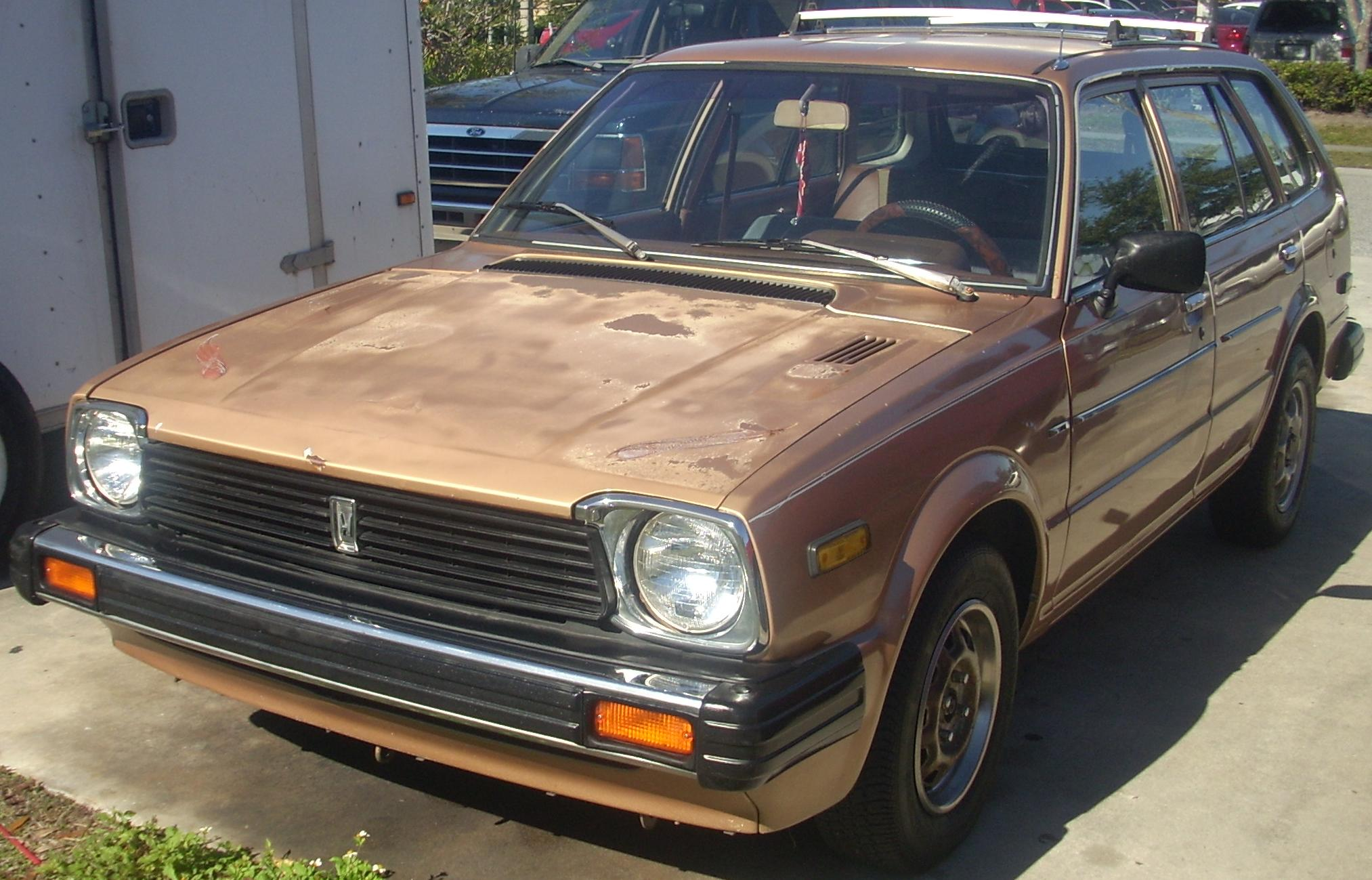 1980-1981 Honda Civic photographed in Orlando, Florida, USA.